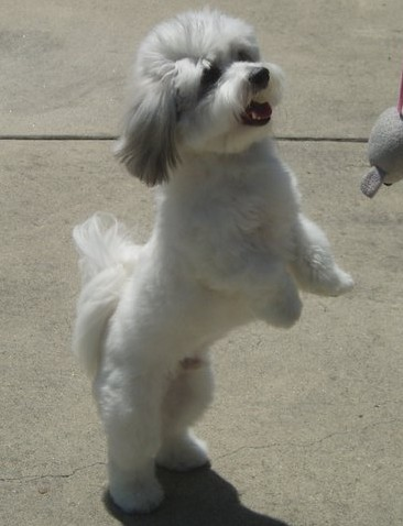 Cropped JPEG picture of an adult Coton de Tulear dog Other information This file is the cropped image of the original